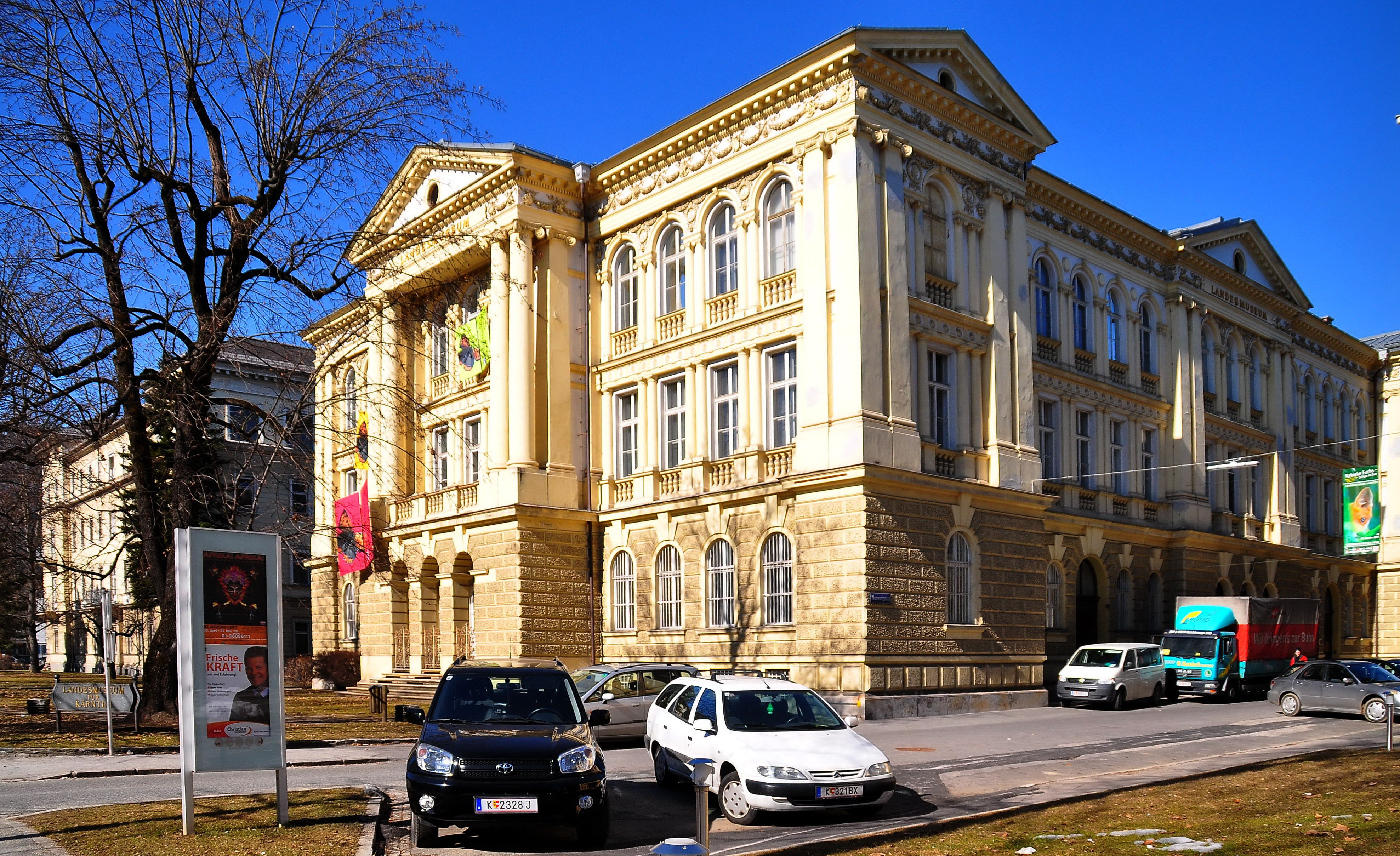 Landesmuseum on the Musemsgasse #2, inner city of the Carinthian capital Klagenfurt, Carinthia, Austria